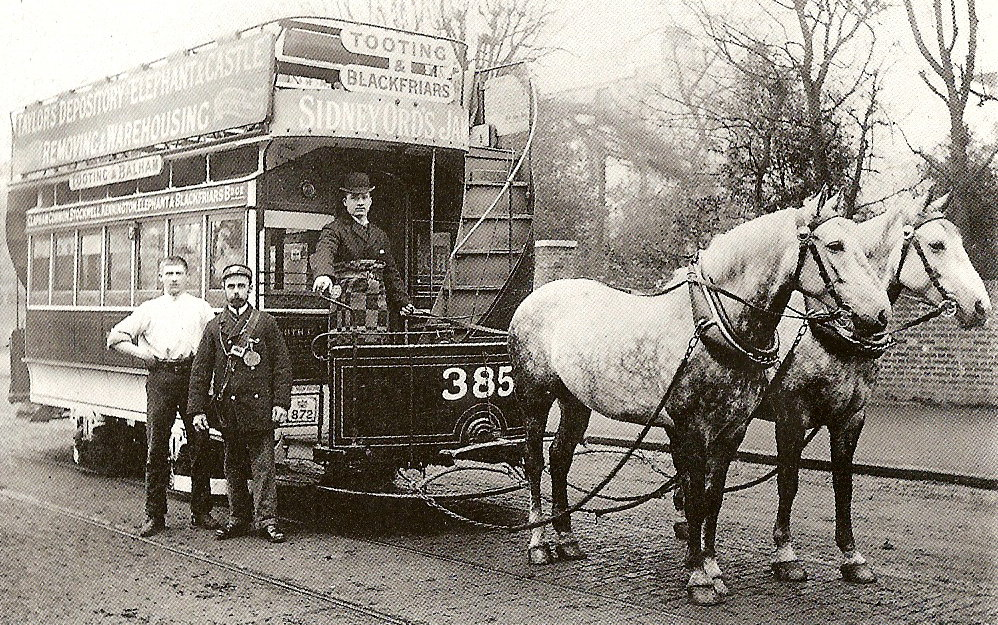 Horse-drawn tram of the London Tramways Company on the route between Tooting and Blackfriars Bridge.